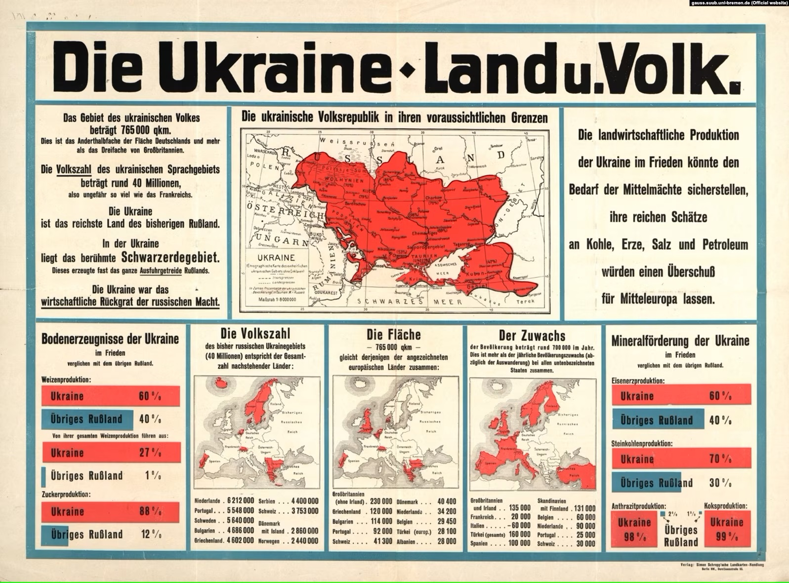 The Ukrainian people republic in its possible borders. Placard 1918